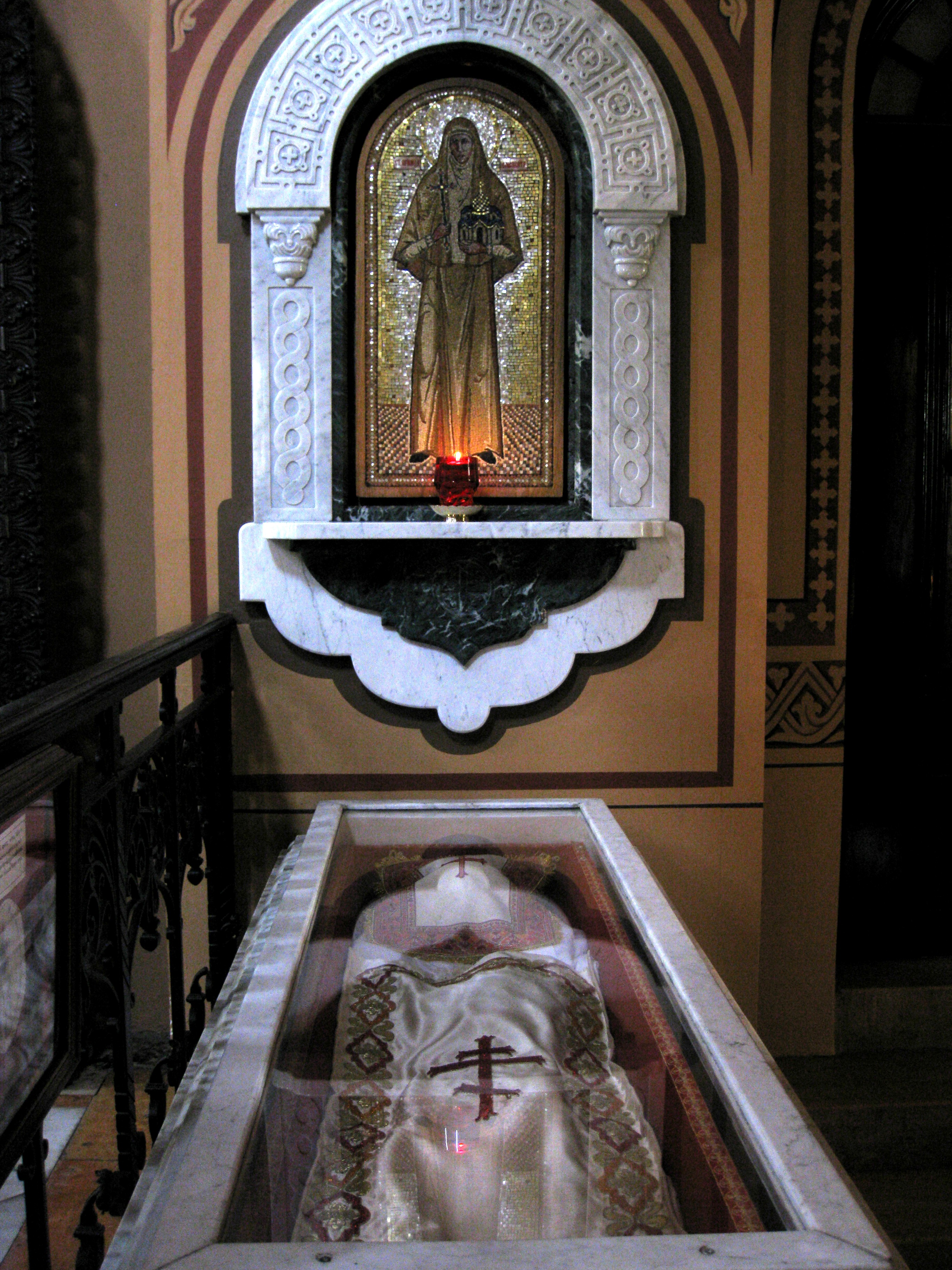 Church of Saint Mary Magdalene כנסיית מריה מגדלנה (כנסיית הבצלים) Tomb of St Elizabeth Feodorovna (1864–1918)